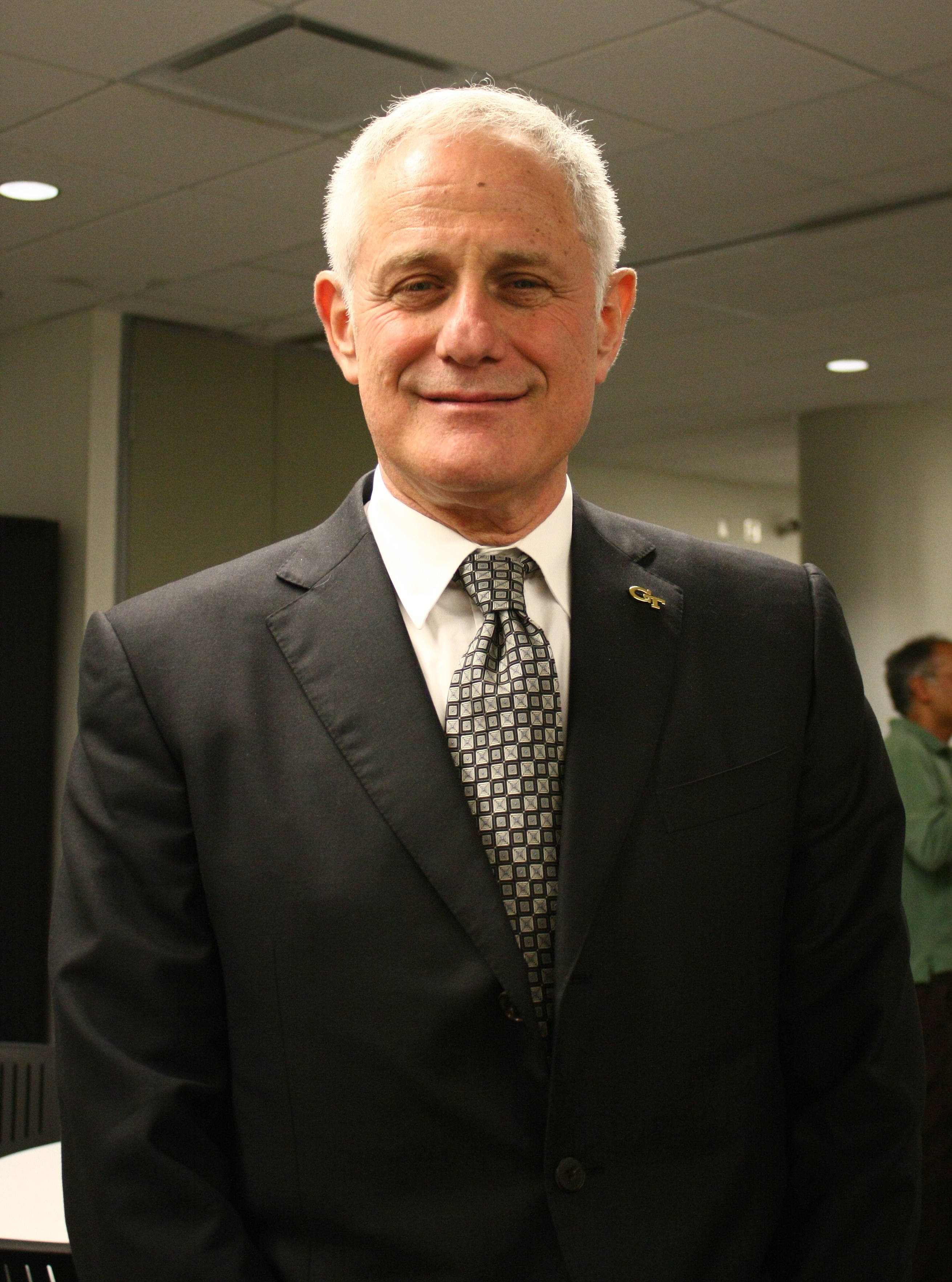 Zvi Galil, the new dean of the Georgia Tech College of Computing, at his welcome ceremony.